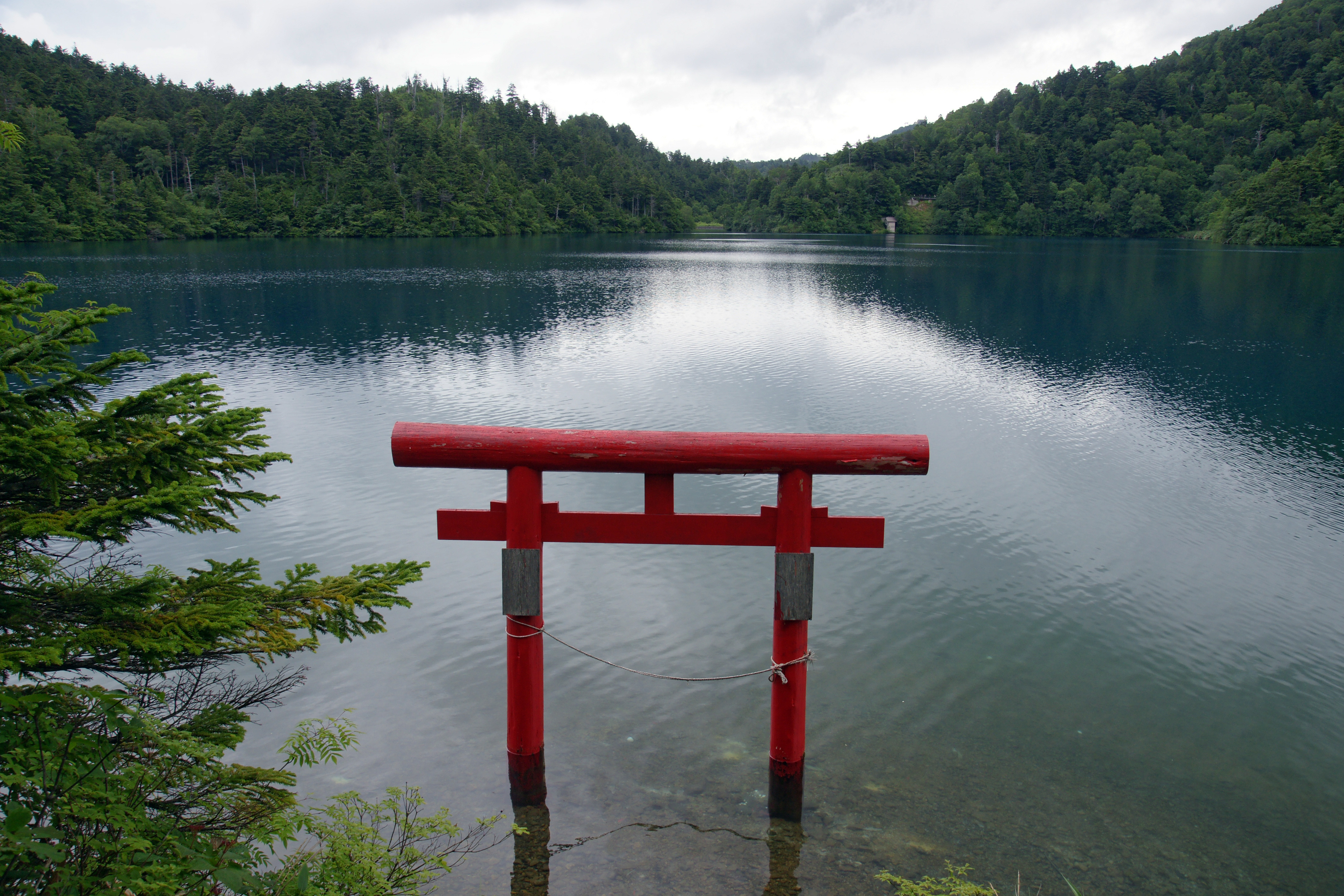 Onuma-ike of Shiga Kogen, Yamanouchi, Nagano prefecture, Japan